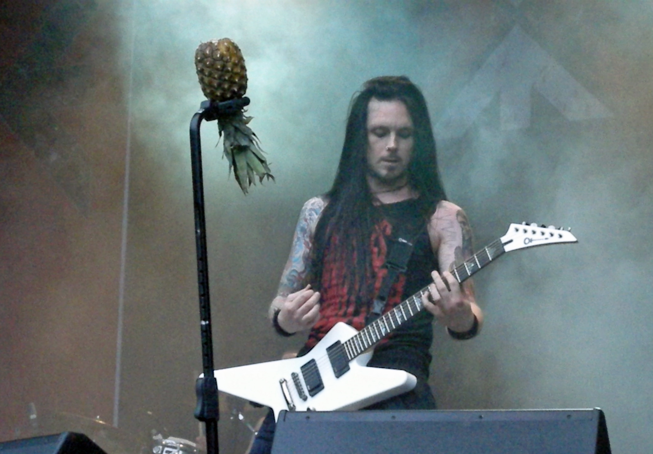 Marcus Sunesson, guitar player of metal band Engel, at Skogsröjet, Rejmyre, Sweden 2012